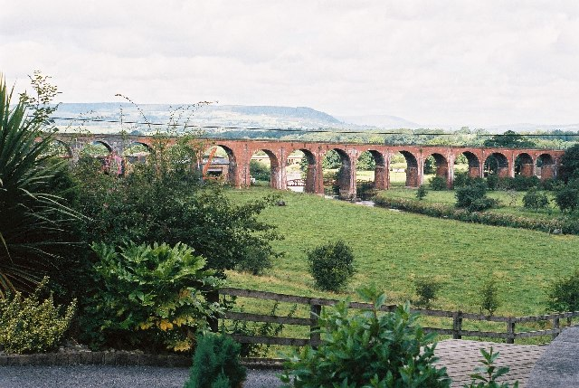 Whalley Viaduct. Built 1850. 48 arches - longest in Lancs - needed own brickworks. Viewed from Whalley Rd Billington (SD730359)